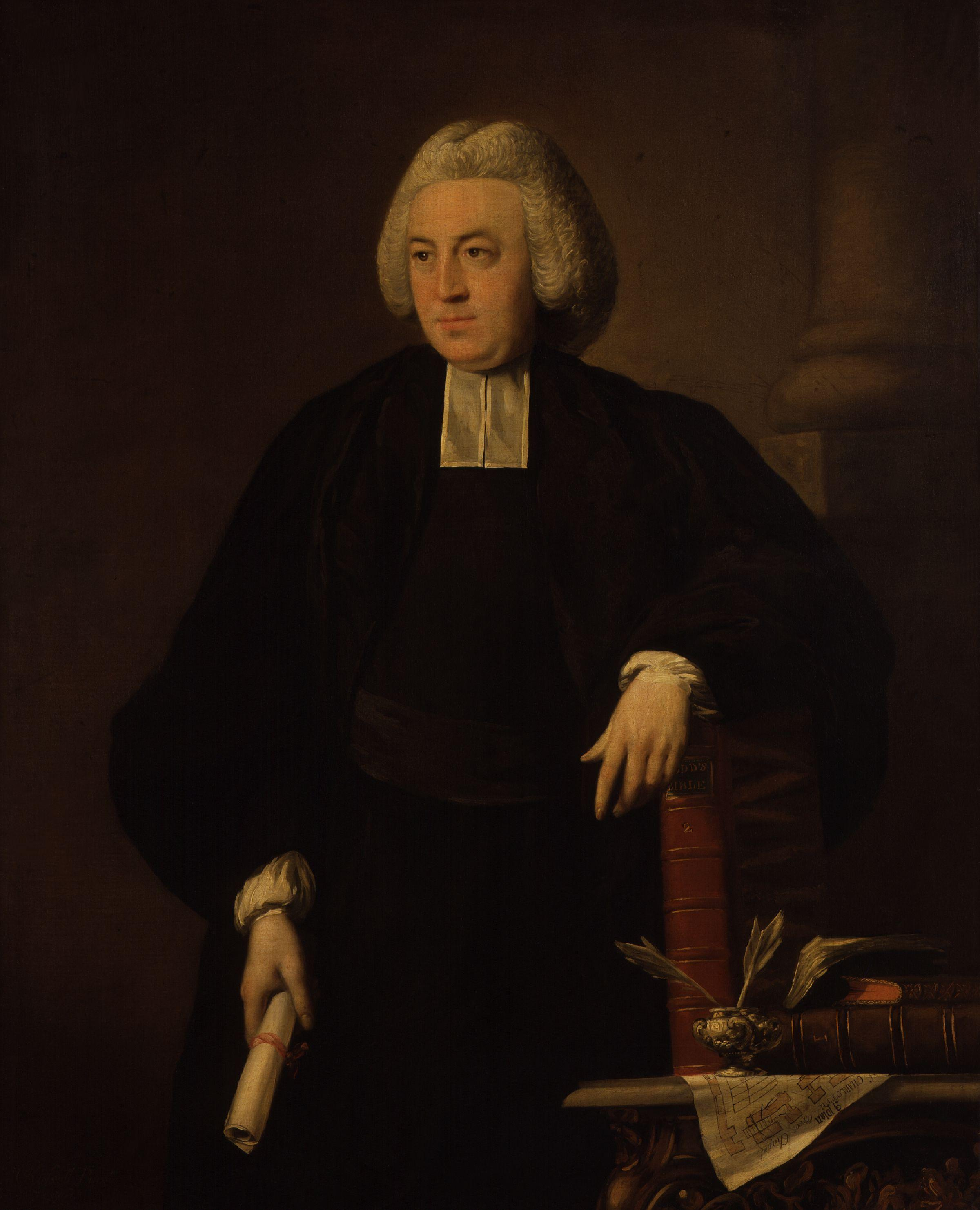 William Dodd, by John Russell (died 1806). All images in this batch have been confirmed as author died before 1939 according to the official death date listed by the NPG.